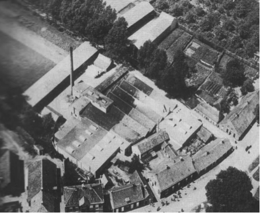 Afbeelding 6.1 Raessens